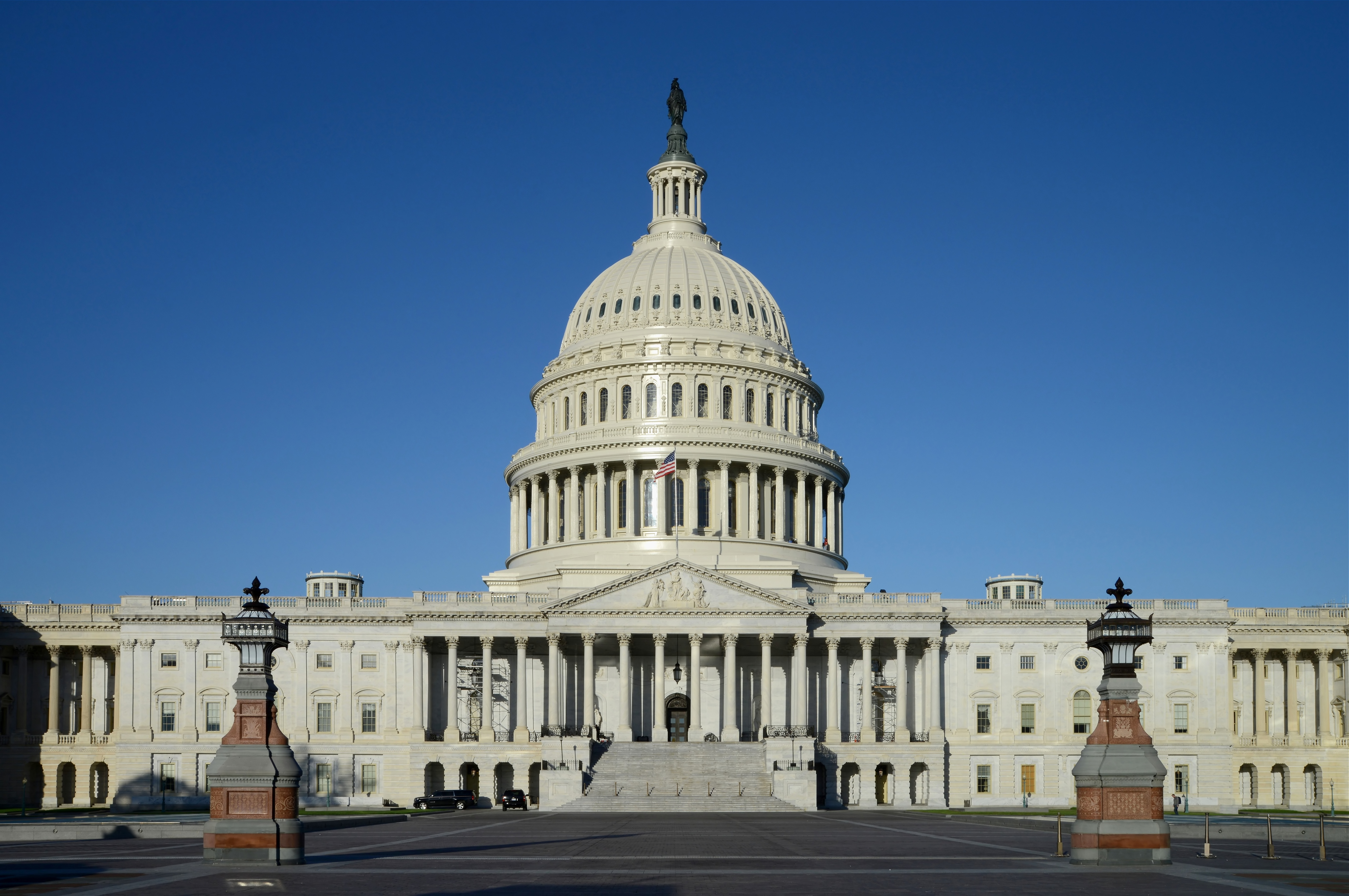 The US Capitol, east facade